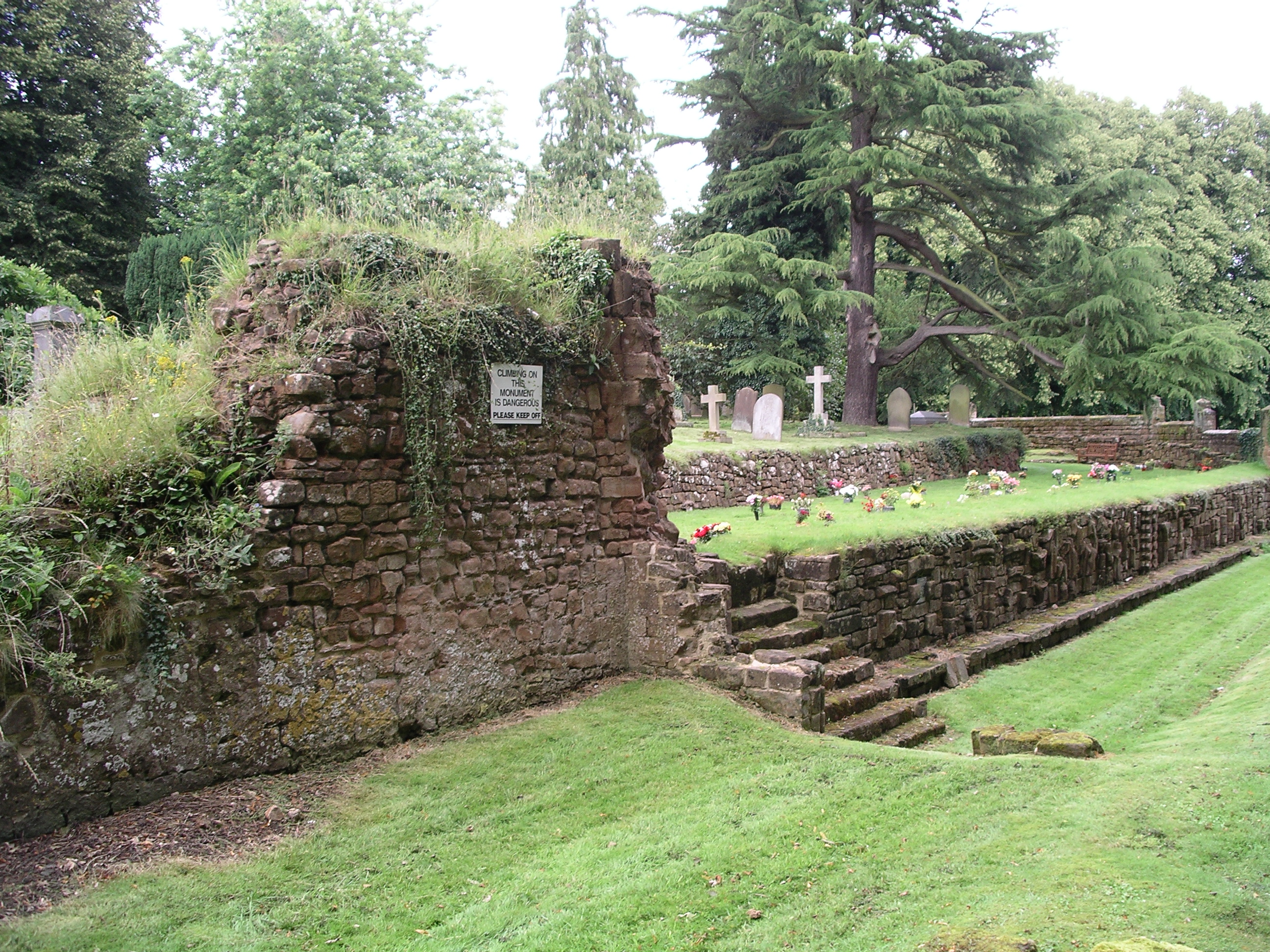 Photo of the ruins of the ancient cloister St Nicholas' Church, Kenilworth, England.